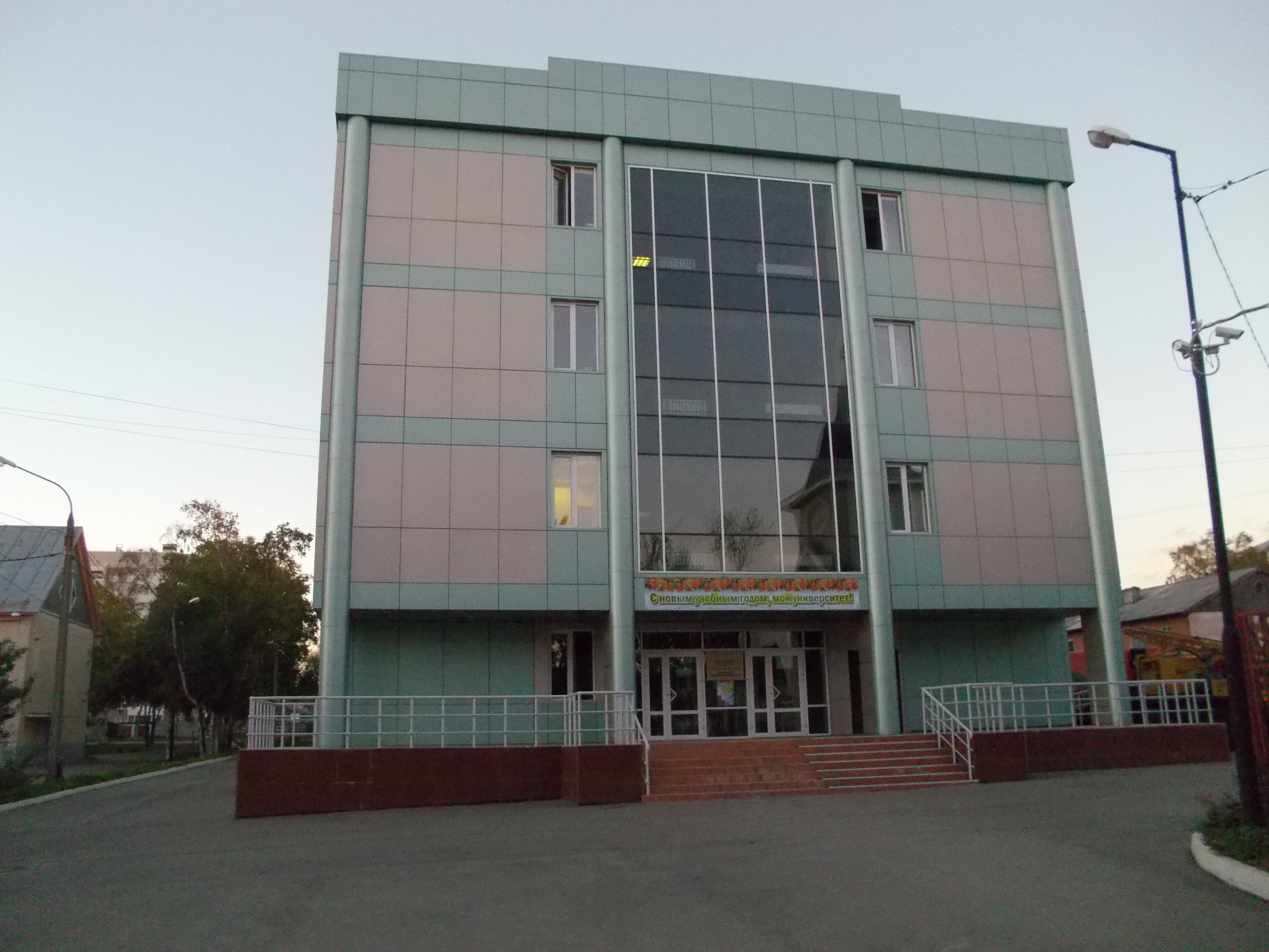 Sakhalih State University, Technical Oil and Gas Institute